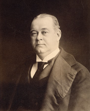 Portrait of Senator George Wetmore of Rhode Island